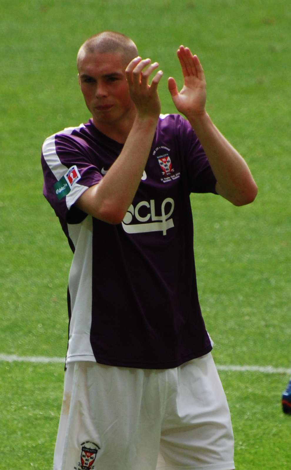 Richard Brodie playing for York City against Stevenage Borough at Wembley Stadium, London on 9 May 2009